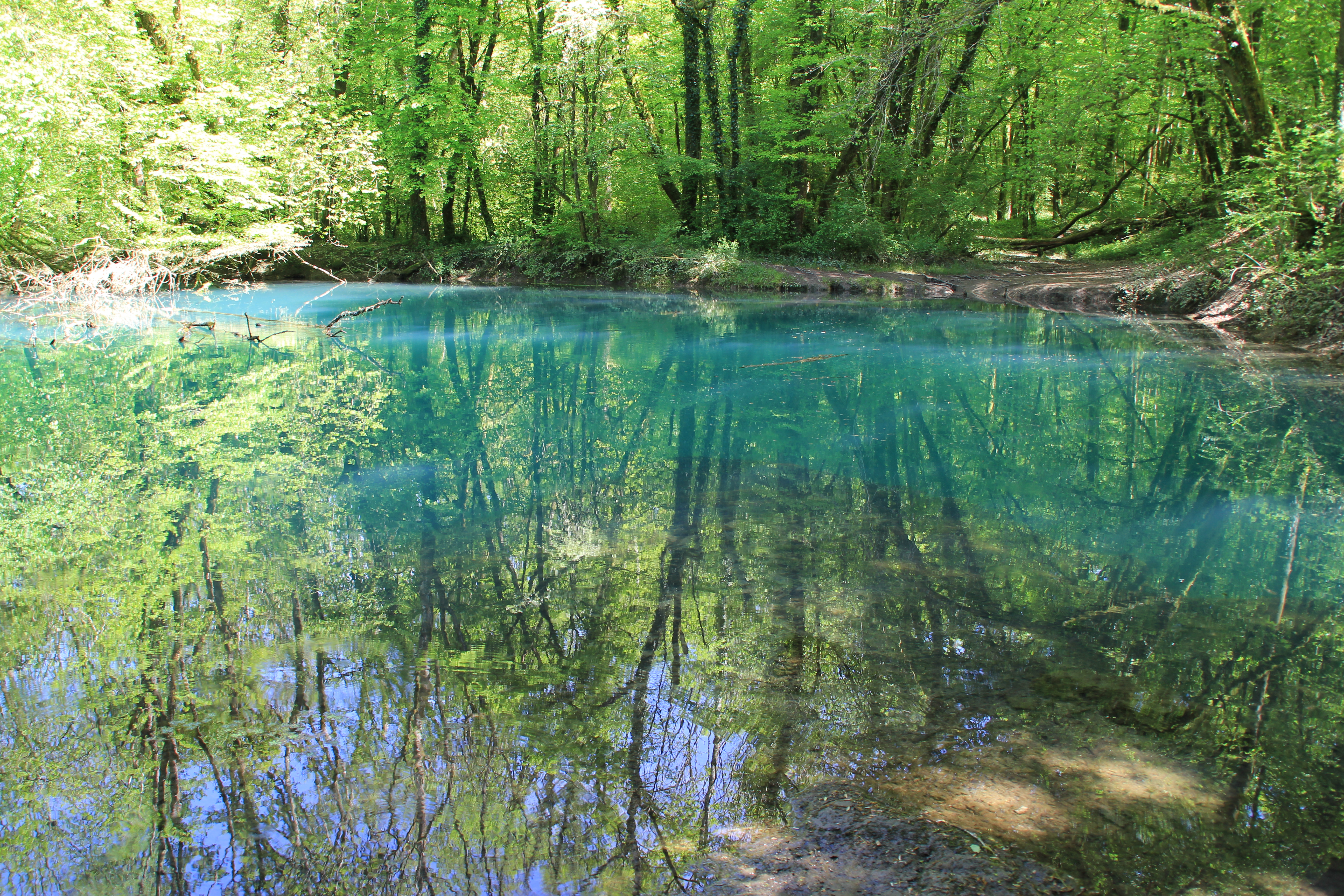 The spring of the Planey near Anjeux, France